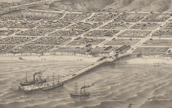 Depiction of the Ventura Pier from an 1877 lithograph by A.L. Bancroft & CO.